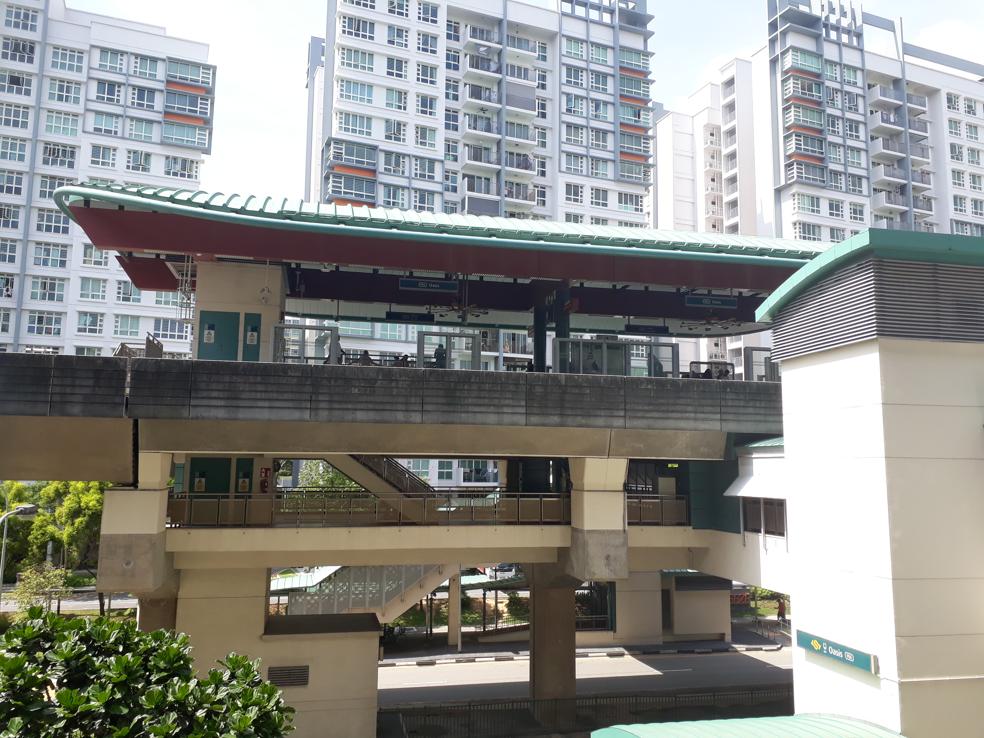 Exterior of Oasis LRT station viewed from Oasis mall